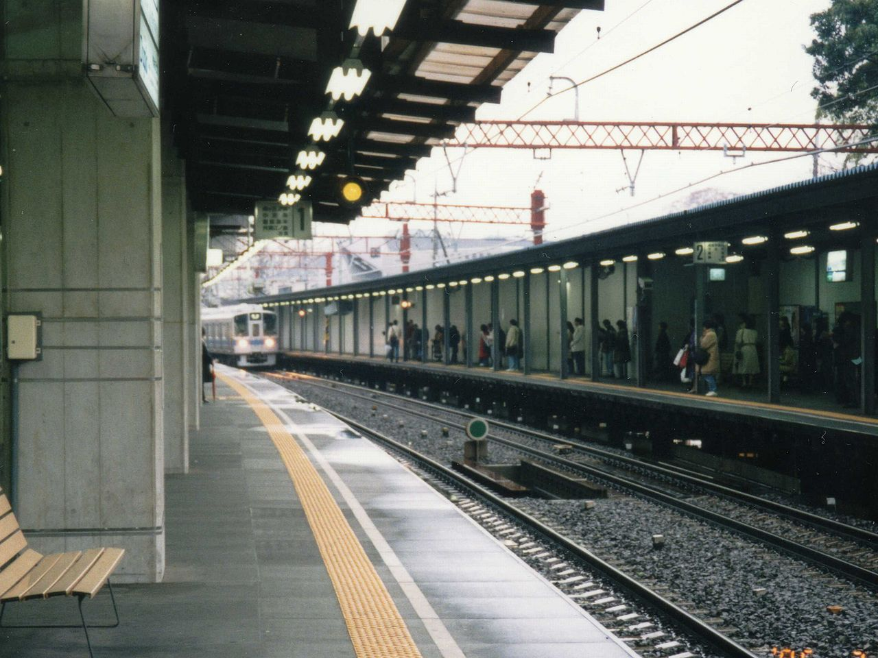 Inside of Komae Sta. on Odakyu Odawara Line.